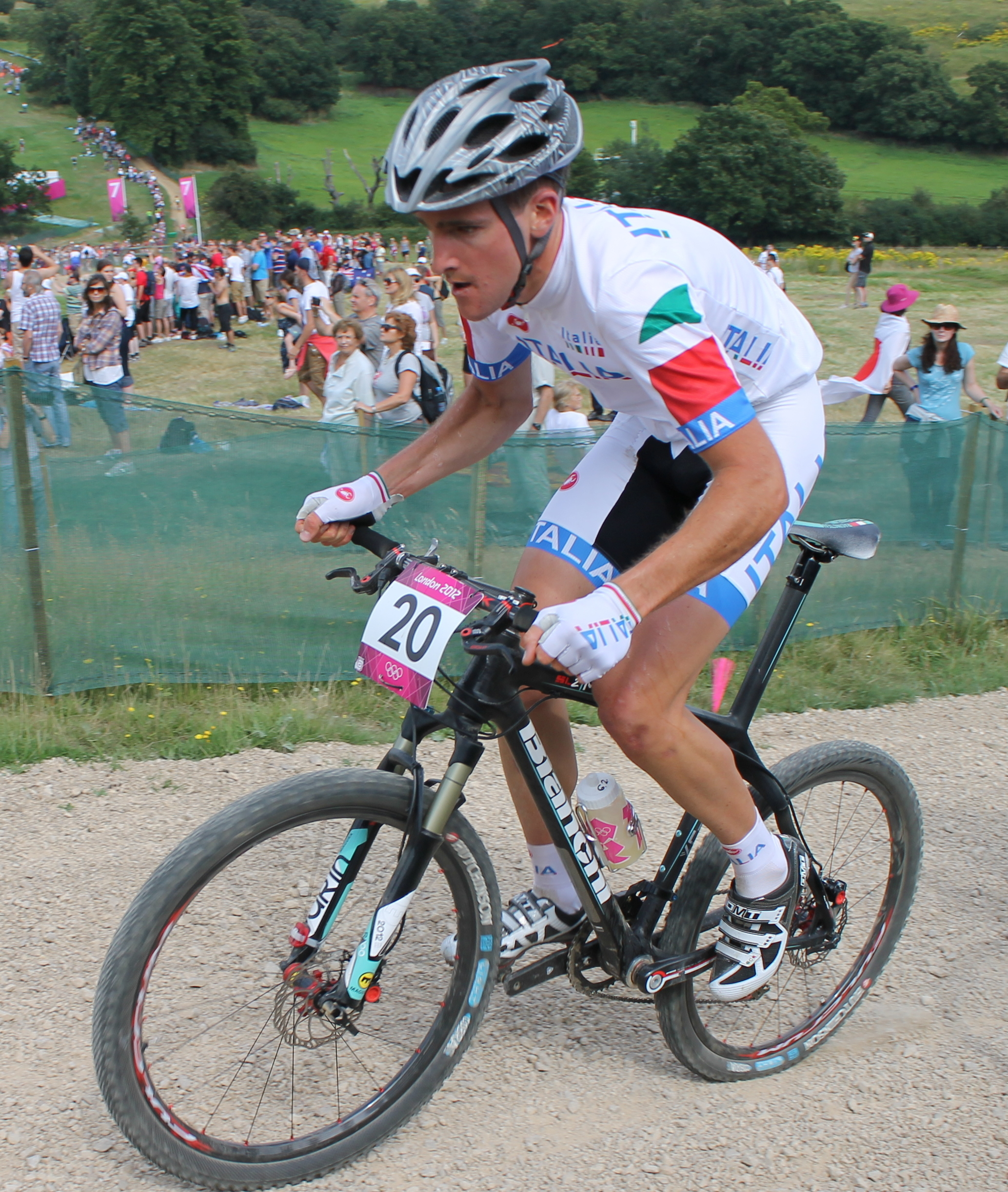 Cycling at the 2012 Summer Olympics – Men's cross-country Gerhard Kerschbaumer (20) (ITA) IMG_4033